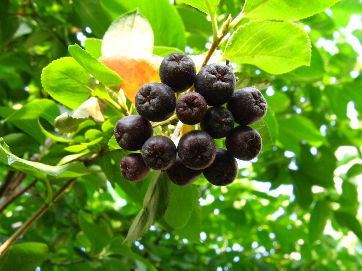 Fruit of Aronia mitschurinii, cultivated in Poland.